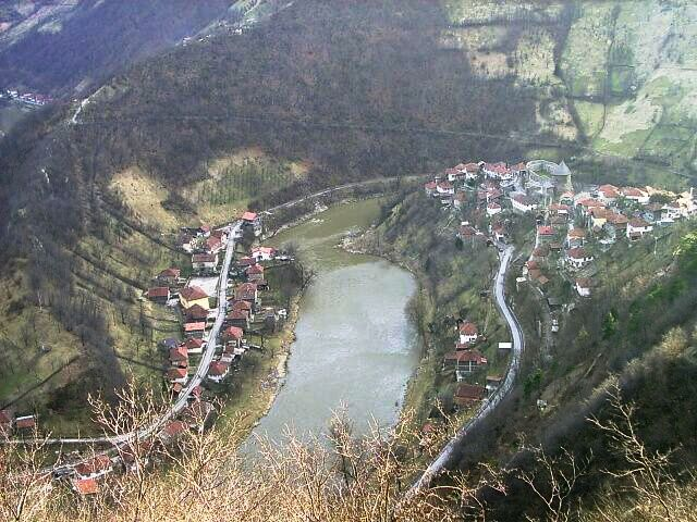 The village of Vranduk with a neighbouring castle, BiH